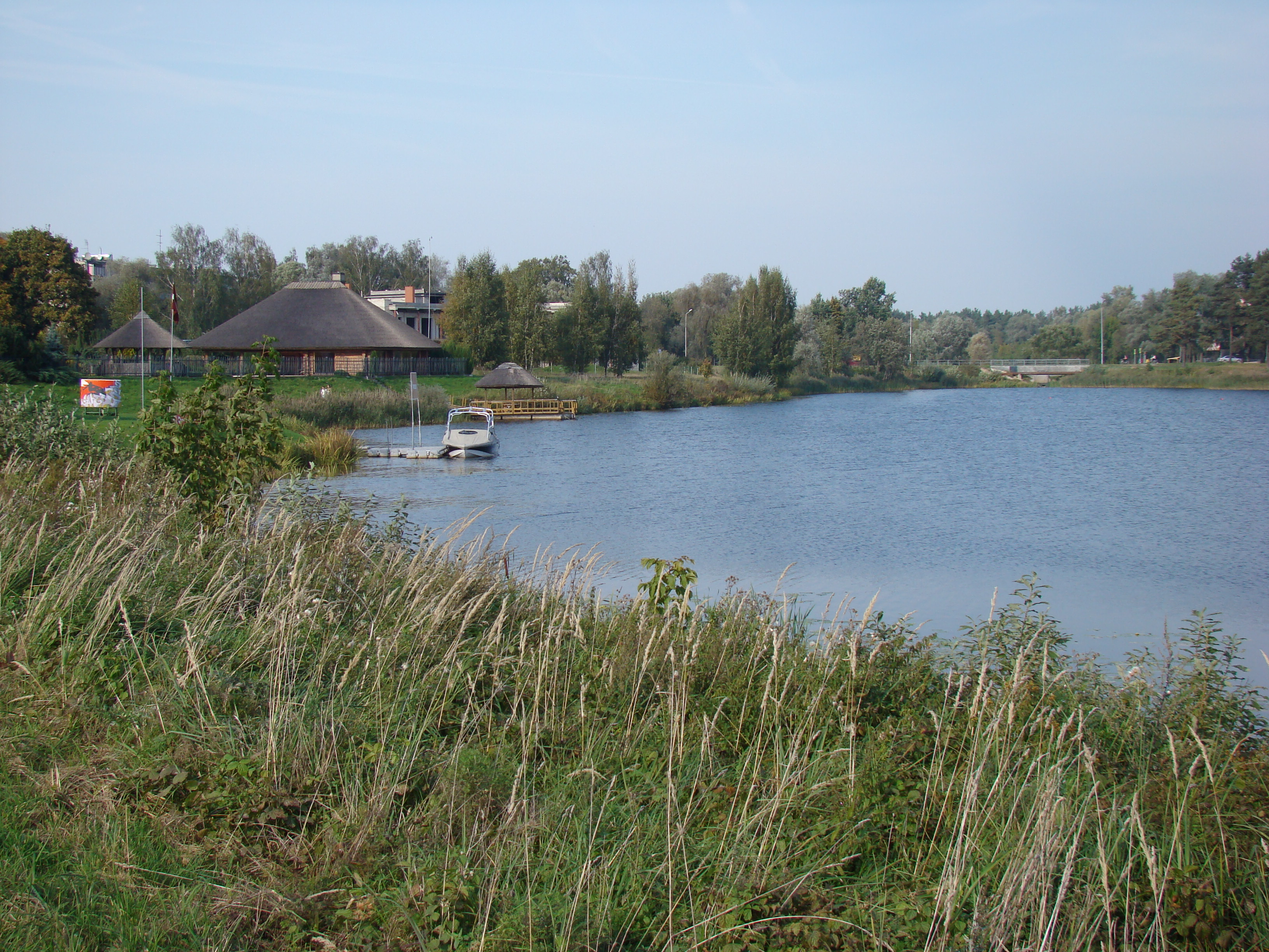 Gauja river in Adazi